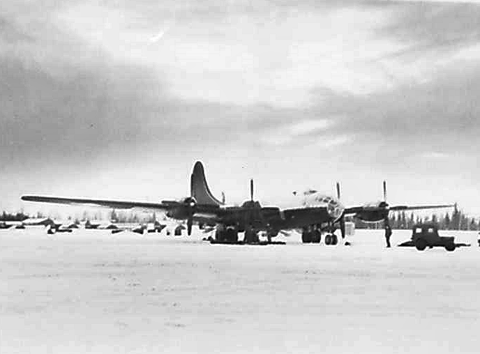 RB-29 of the 72nd Strategic Reconnaissance Squadron, Photographic, on thee ramp in the snow at Ladd AFB, Alaska Territory, 1948 (USAF Photo)